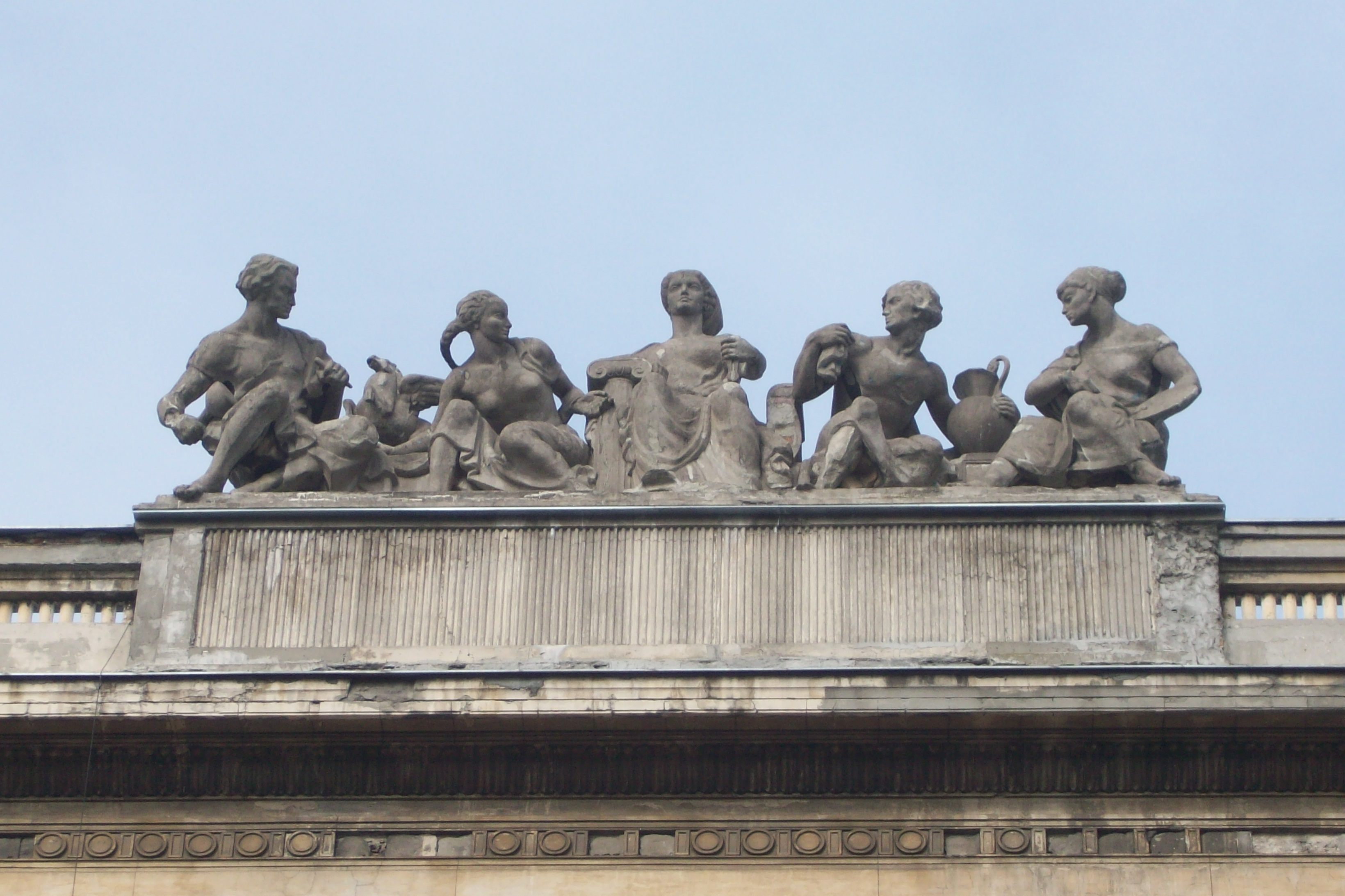 Allegorical presentation of Fine Arts made by Kazimierz Bieńkowski in 1952. The monument is situated in Warsaw, on Koszykowa Street.